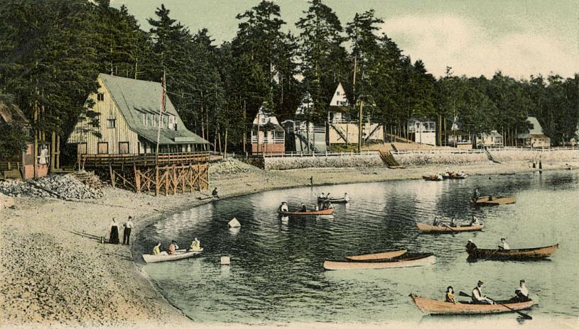 The Grand Army of the Republic Camps, Mousam Lake, Shapleigh, Maine